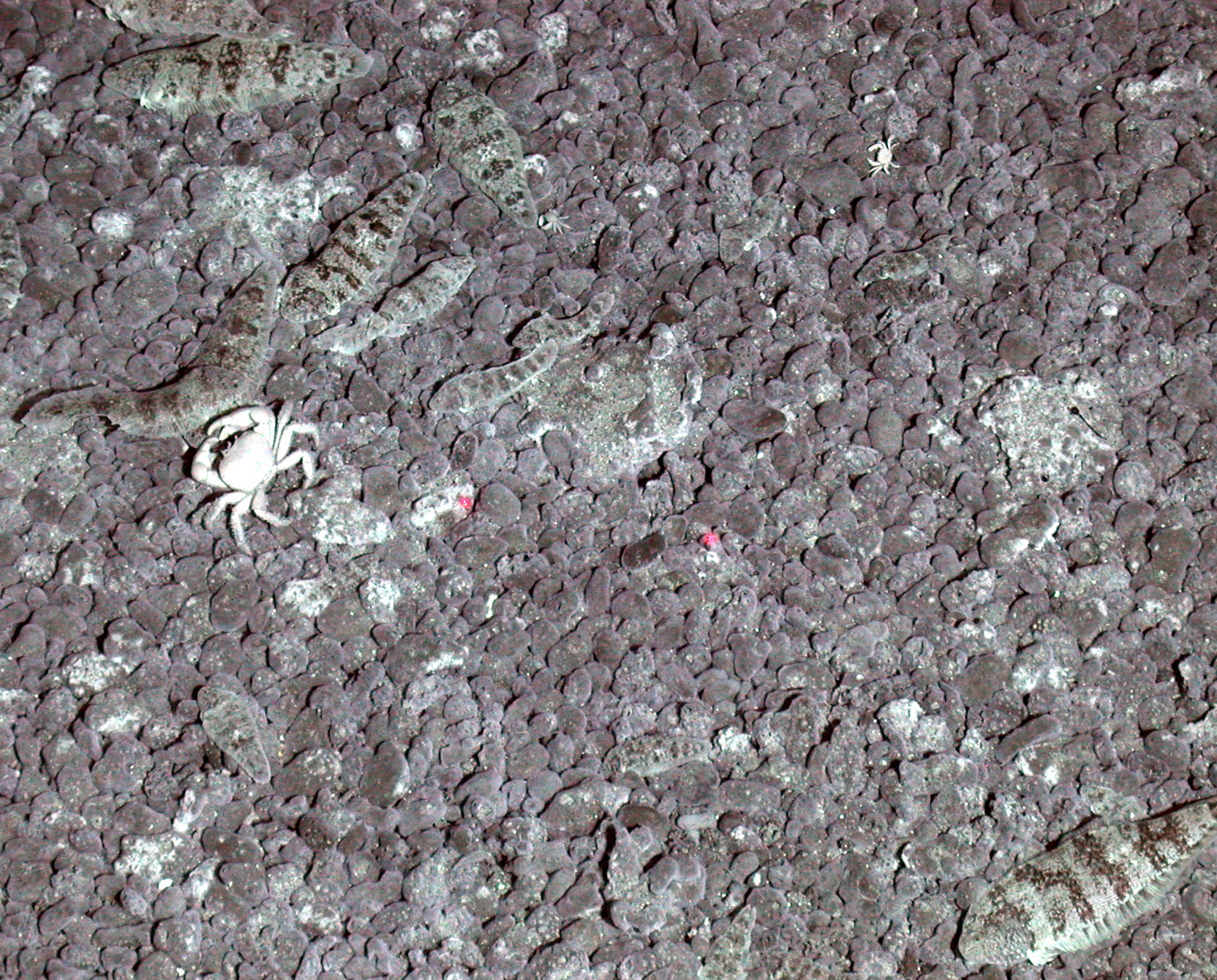 Tonguefish (Symphurus thermophilus) and crabs on the seafloor at the Daikoku Seamount. The lasers (red dots) are 10 cm apart.